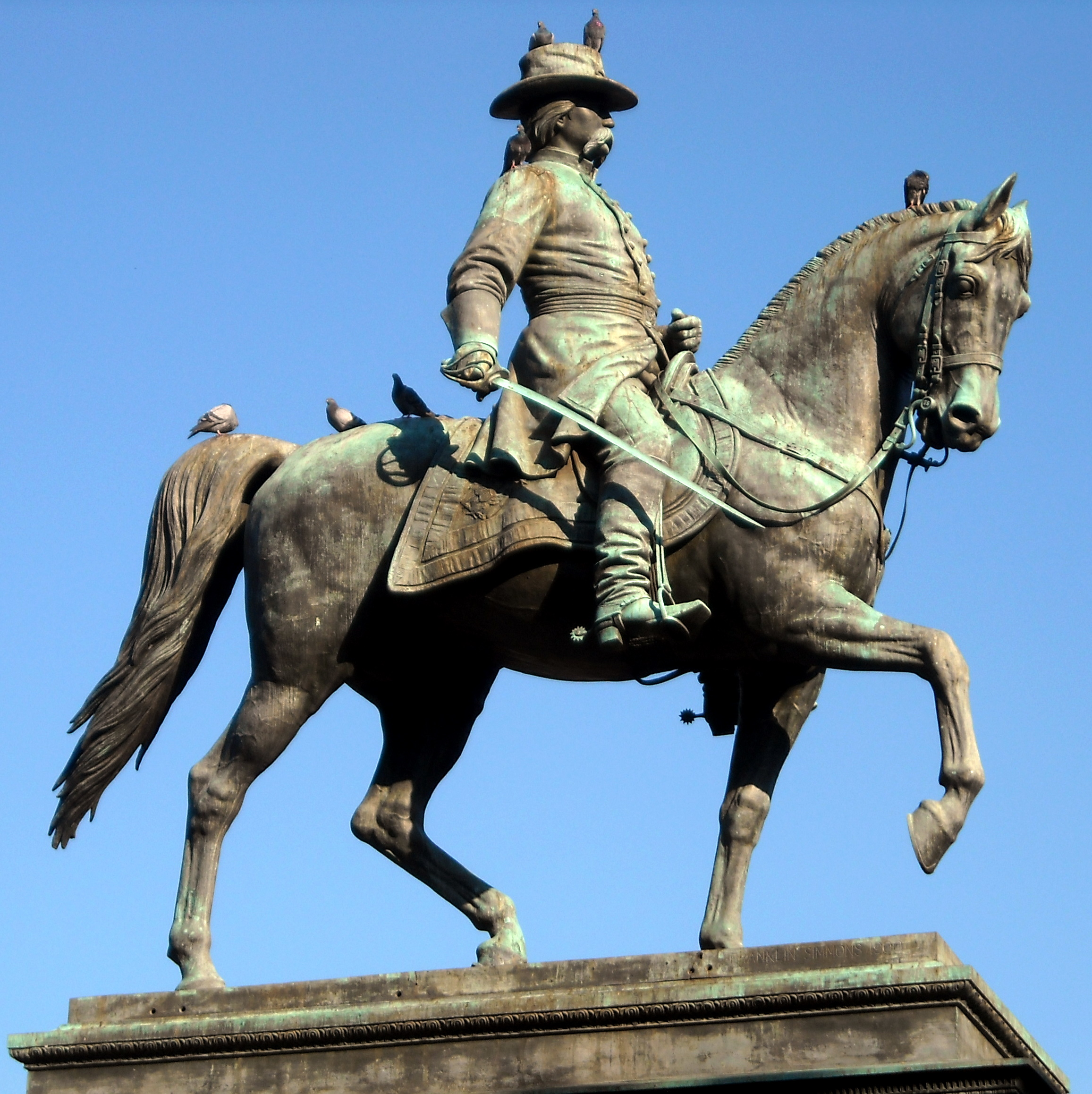 The monument honoring General John A. Logan, located in the center of Logan Circle in Washington, D.C. The bronze, equestrian statue was sculpted by Franklin Simmons, and the bronze statue base was designed by Richard Morris Hunt. The monument was dedicated on April 9, 1901. It is a contributing property to the Logan Circle Historic District, the Fourteenth Street Historic District, and the collective listing of Washington, D.C.'s Civil War statuary on the National Register of Historic Places.